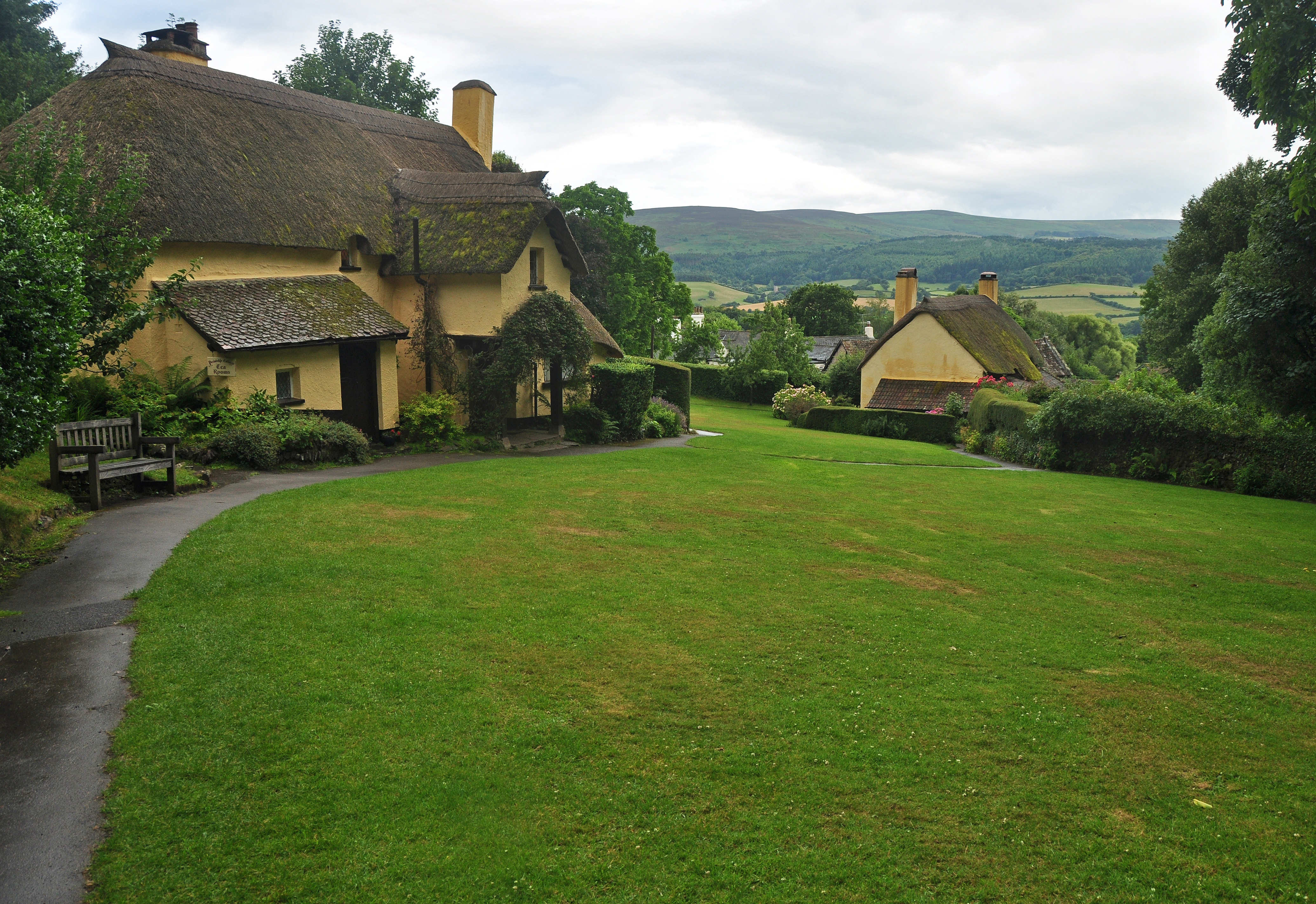 The village green of Selworthy, on Exmoor.